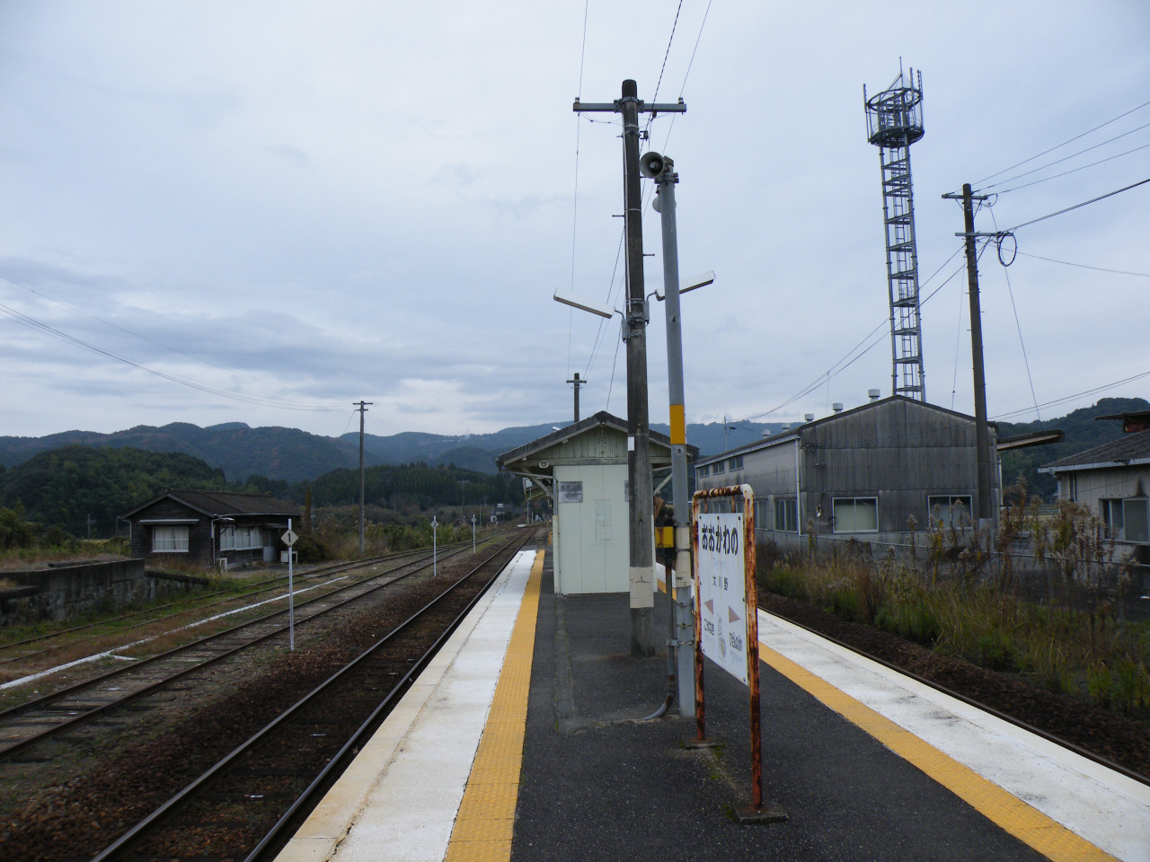 JRKyushu Chikuhi Line Okawano Station